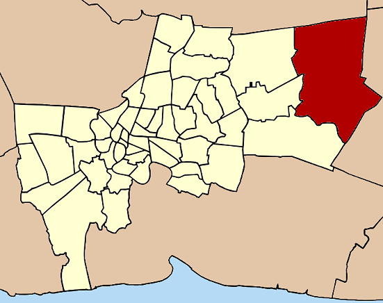 Map of Bangkok, Thailand, highlighting the district (khet) Nong Chok (หนองจอก)